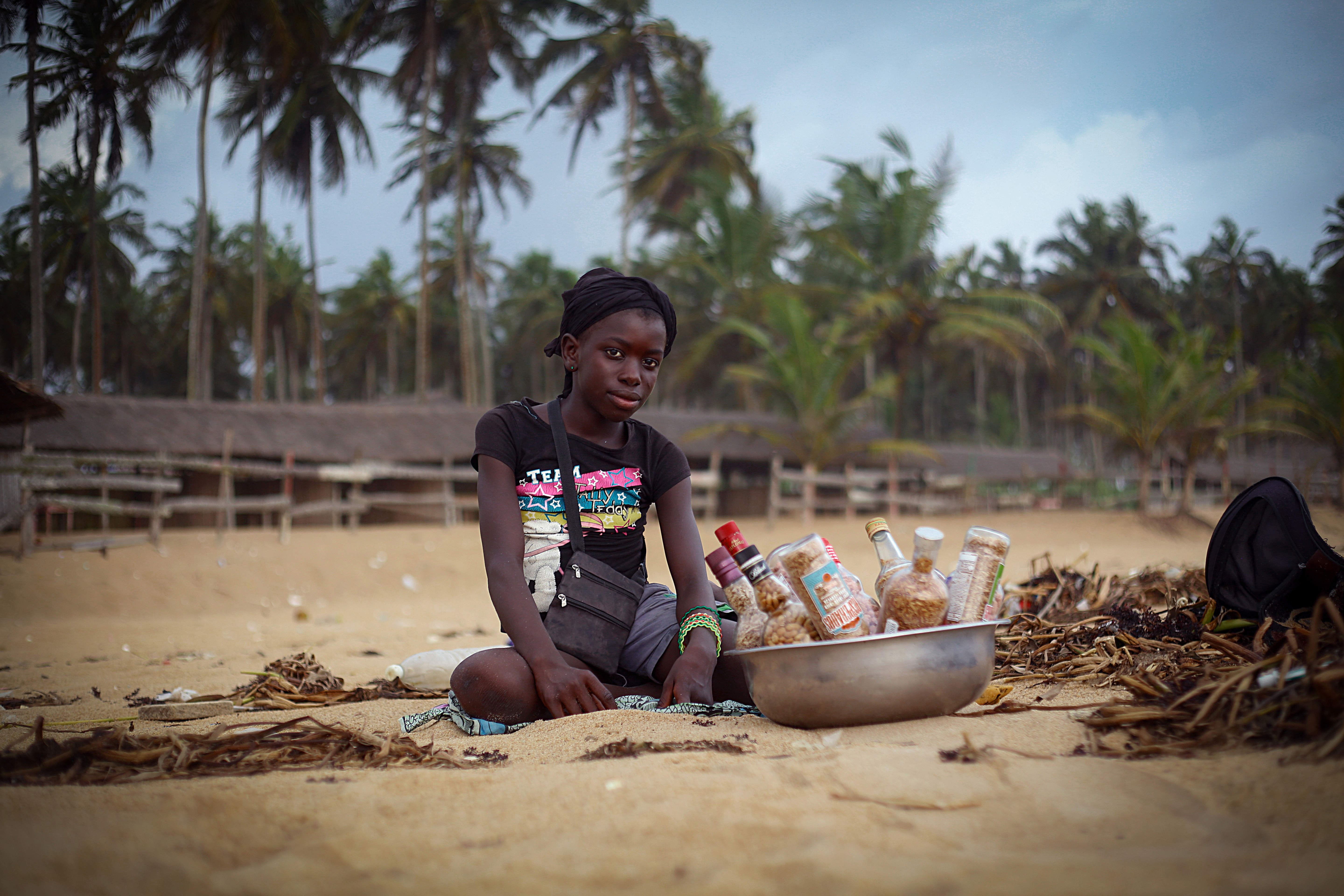 This is an image of "African people at work" from Ivory Coast